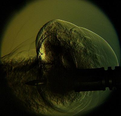 This image was taken from a high-speed schlieren video of a flash suppressor. Video speed was 28,070 frames per second. Shutter speed was 1 microsecond. Camera was a Phantom v12.1. Free file sharing must have accompanied credit to author, Nathan Boor of Aimed Research, on the internet page it appears.